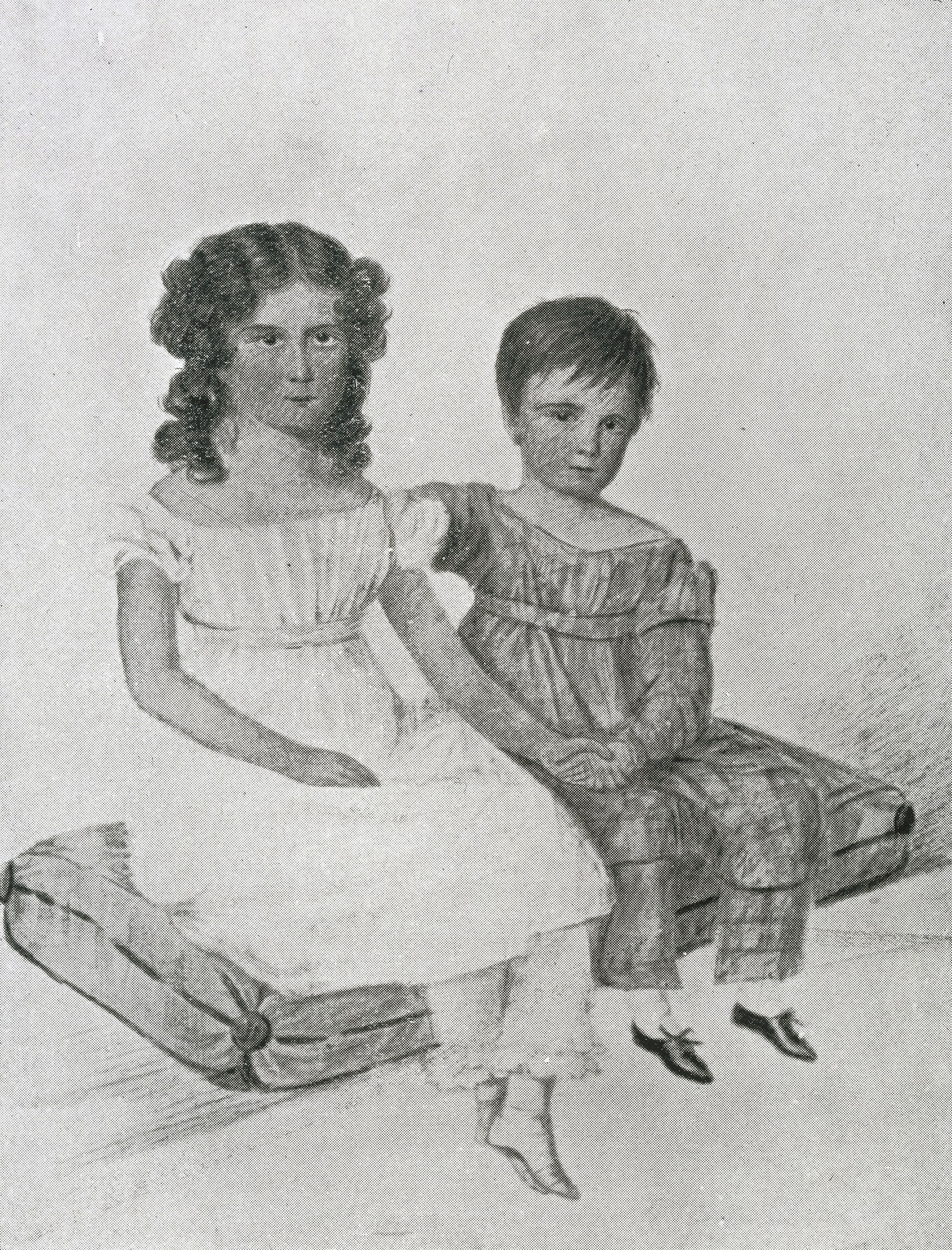 Nina and Jerningham Wakefield from a portrait by J. Mills in 1822. The two small children of Edward Gibbon Wakefield, seated holding hands on a cushion. Proof for illustrations in O'Connor, Irma. Edward Gibbon Wakefield, the man himself. London 1928.